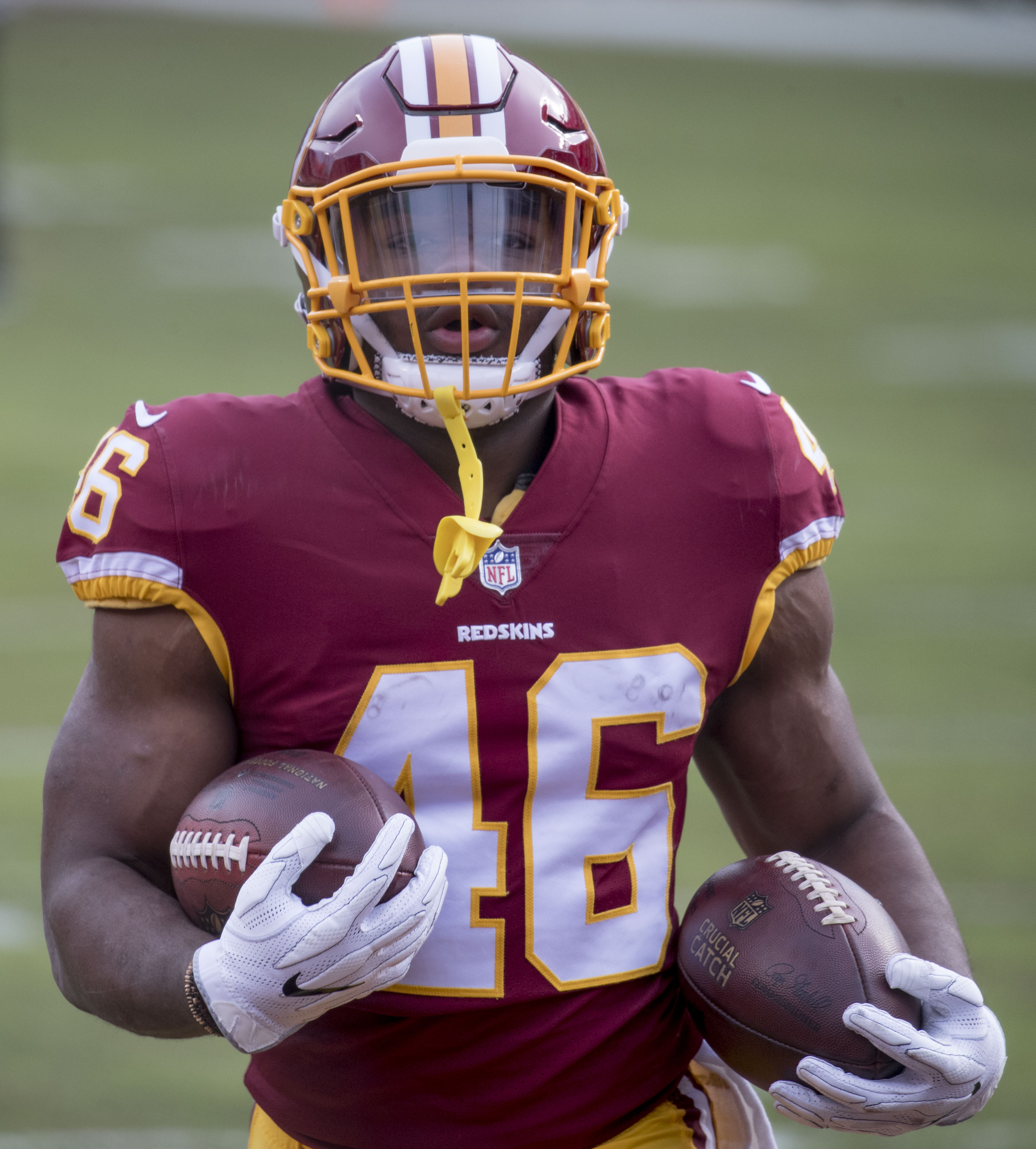 Washington Redskins running back, LeShun Daniels, during warm-ups before a game against the Arizona Cardinals on December 17, 2017.